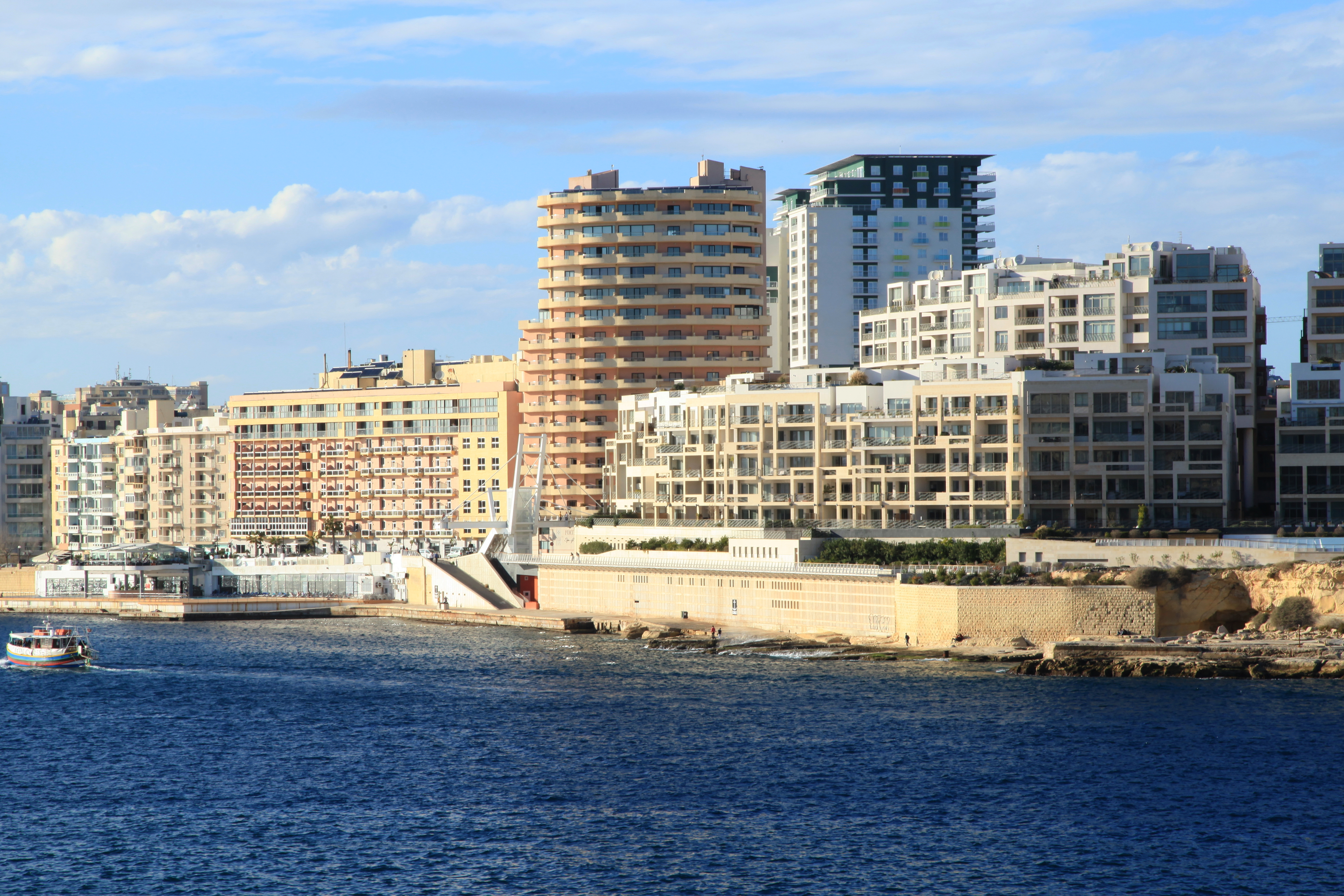 View from Triq San Bastjan in Valletta to the Tigné Point in Sliema